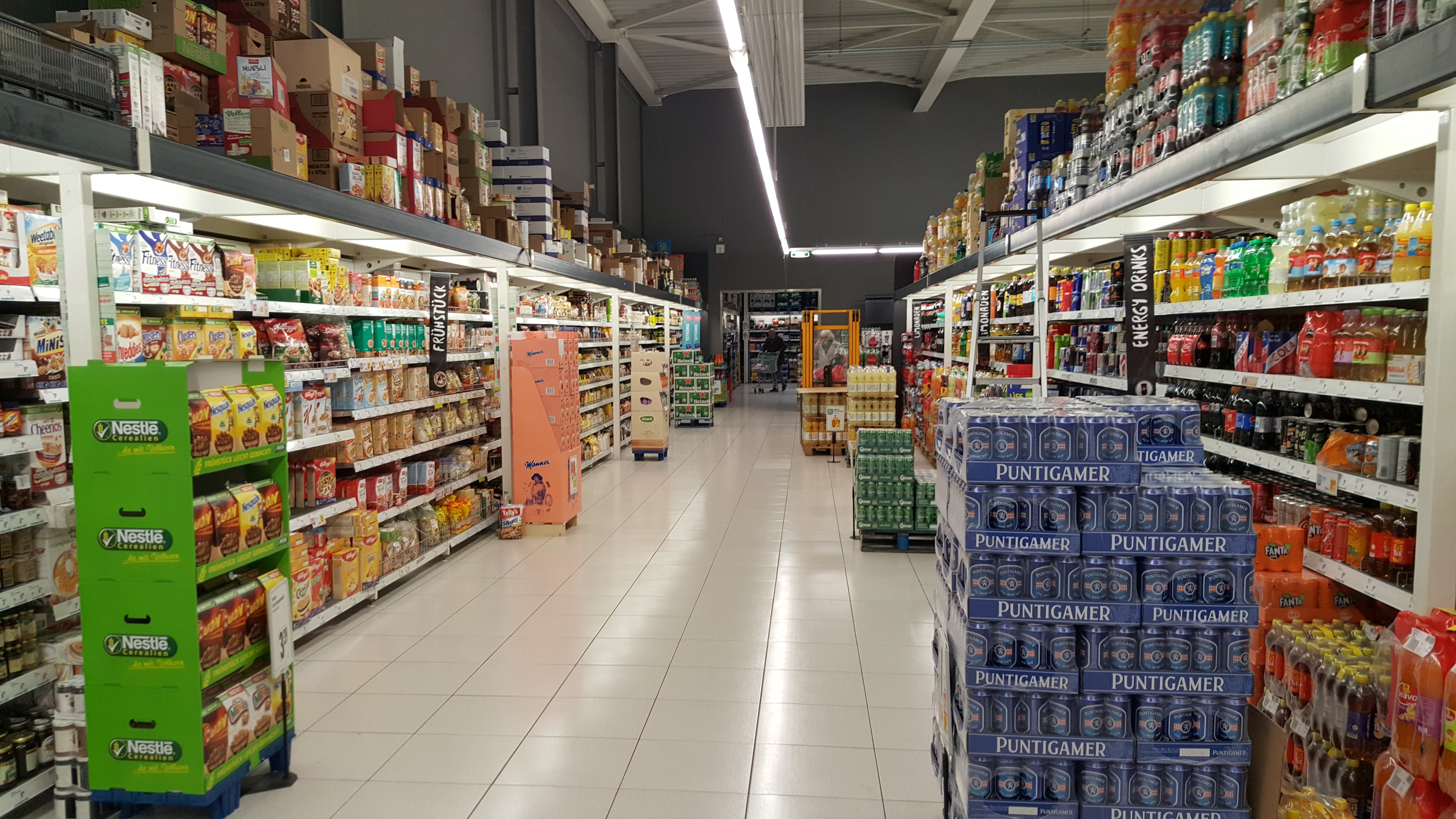 Hypermarket Merkur Austria - Vienna Floridsdorf - 05.04.2017